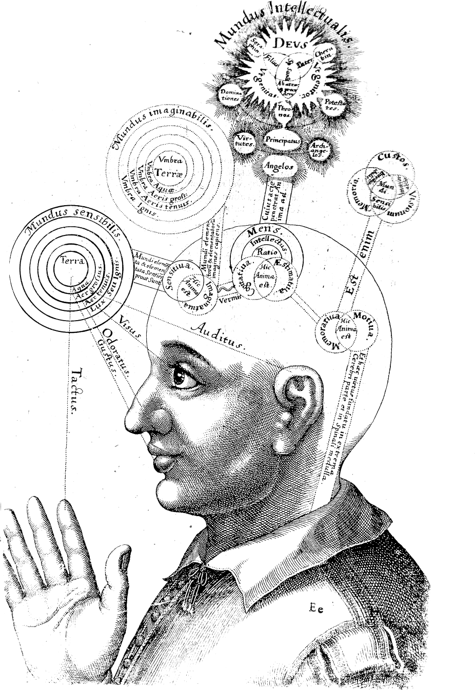 Robert Fludd, Utriusque cosmi maioris scilicet et minoris […] historia, tomus II (1619), tractatus I, sectio I, liber X, De triplici animae in corpore visione. This file was transfered from . The original file description page is (was) here. (12:13, 30. Aug 2005) . . Benutzer:Markus Mueller (Markus Mueller) (Benutzer Diskussion:Markus Mueller (Diskussion) ) . . 926 x 1345 (323784 Byte) (Robert Fludd, Geist und Bewußtsein, 17. Jahrhundert)